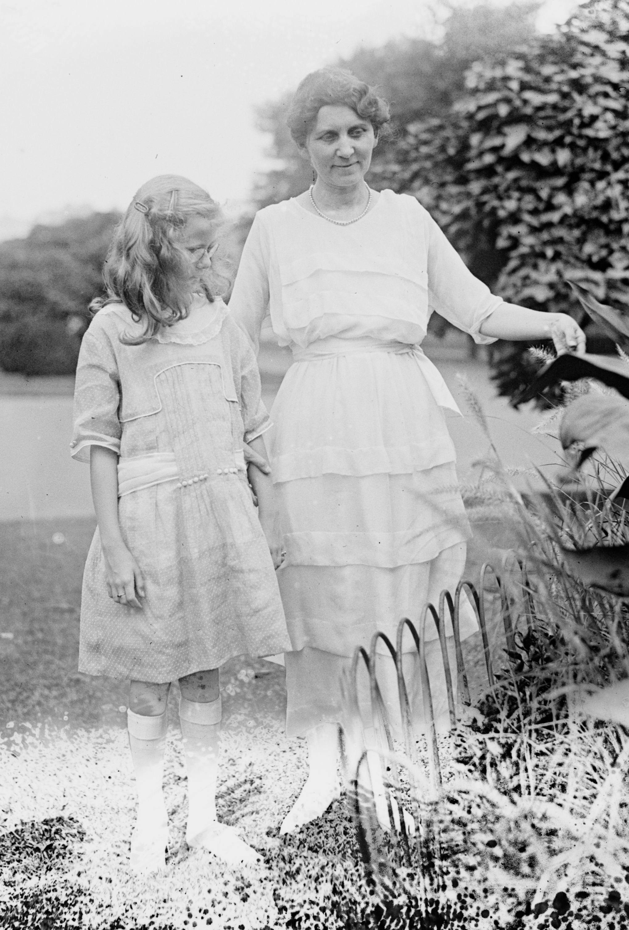 Ida May Spaulding Cameron, wife of Senator Ralph H. Cameron of Arizona, with daughter Catherine